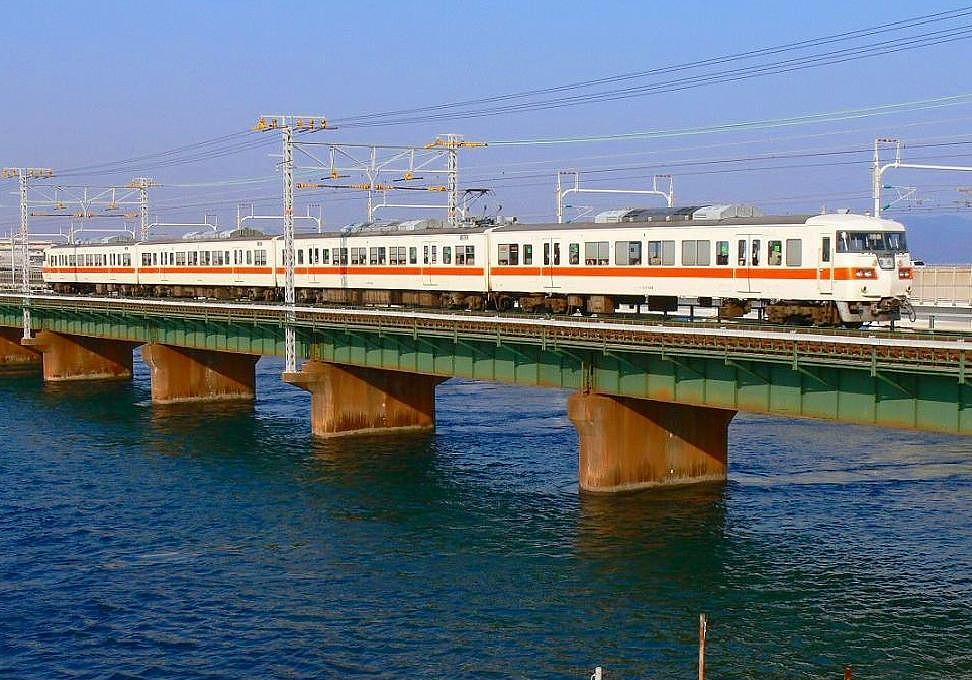 Central Japan Railway Type117 Train Toukaidou line(Japan). Taking a picture from the public road between stations of Bentenzima station and Araimati. JR東海117系電車が浜名湖を渡る。 東海道線弁天島～新居町の駅間にて 公道より撮影